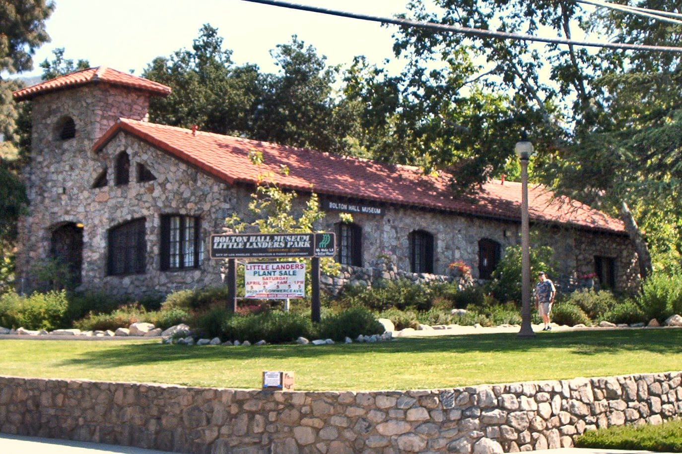 The Bolton Hall — in the Sunland–Tujunga district of Los Angeles, in the northeastern San Fernando Valley, Southern California. The former Utopian community center is operated by the Little Landers Historical Society as a local history museum. The 1913 stone Mission Revival and American Craftsman style building is a Los Angeles Historic-Cultural Monument, and on the National Register of Historic Places in Los Angeles.